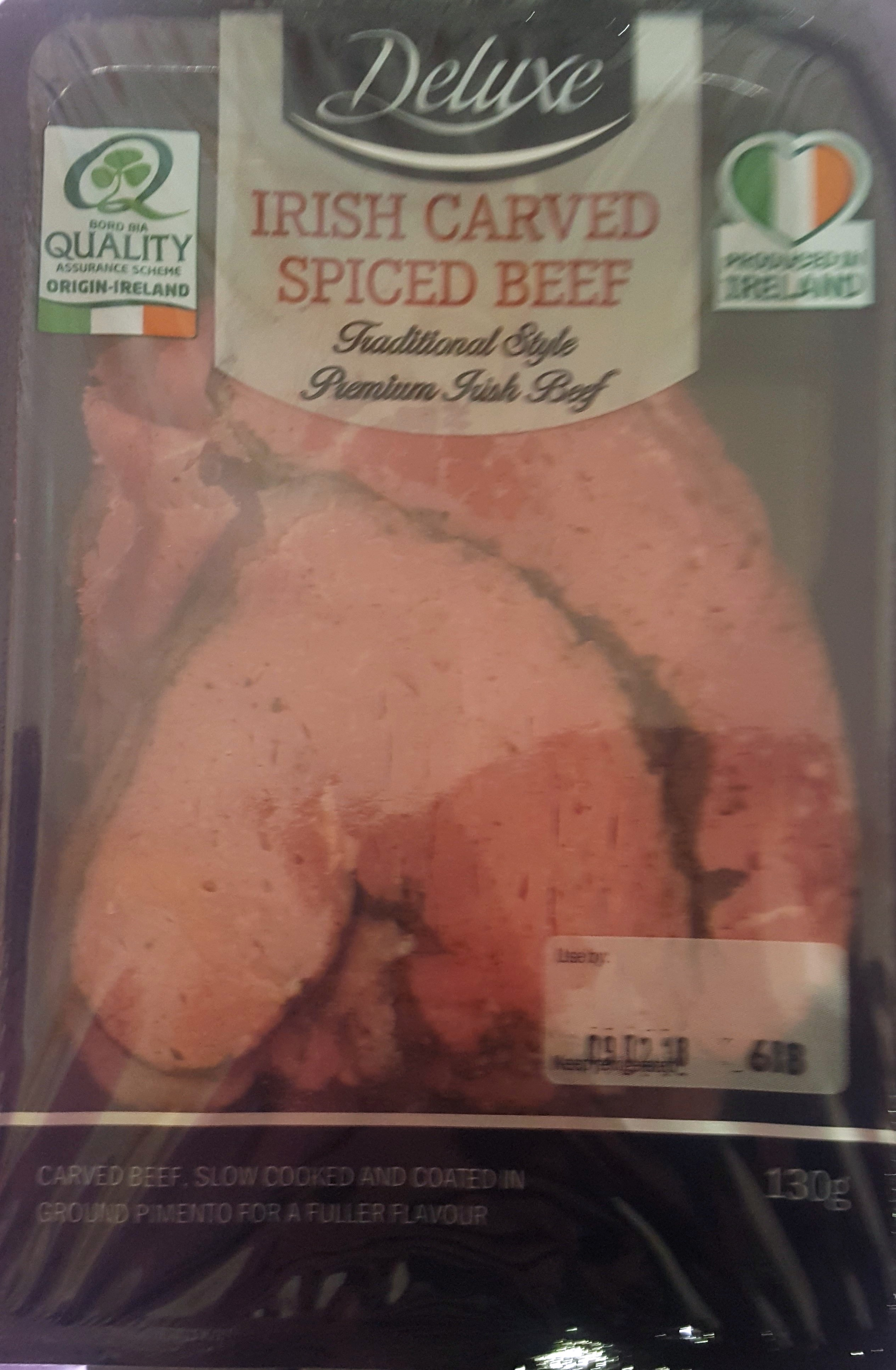 Irish Spiced Beef